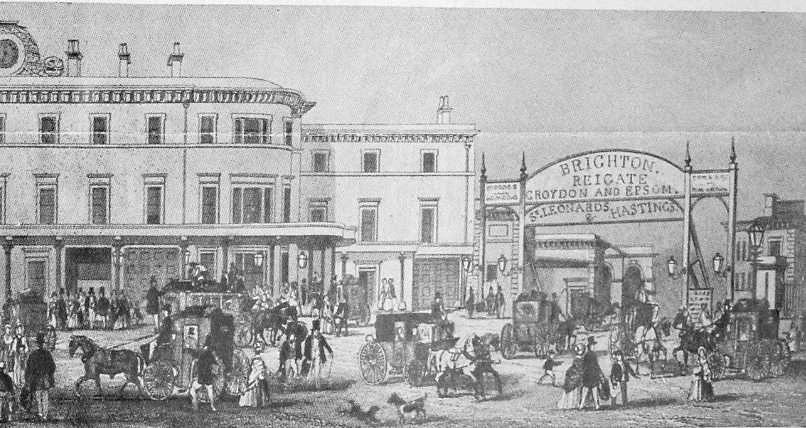 London Bridge Station c.1850 showing the South Eastern Railway Station and the temporary London Brighton and South Coast Railway Station